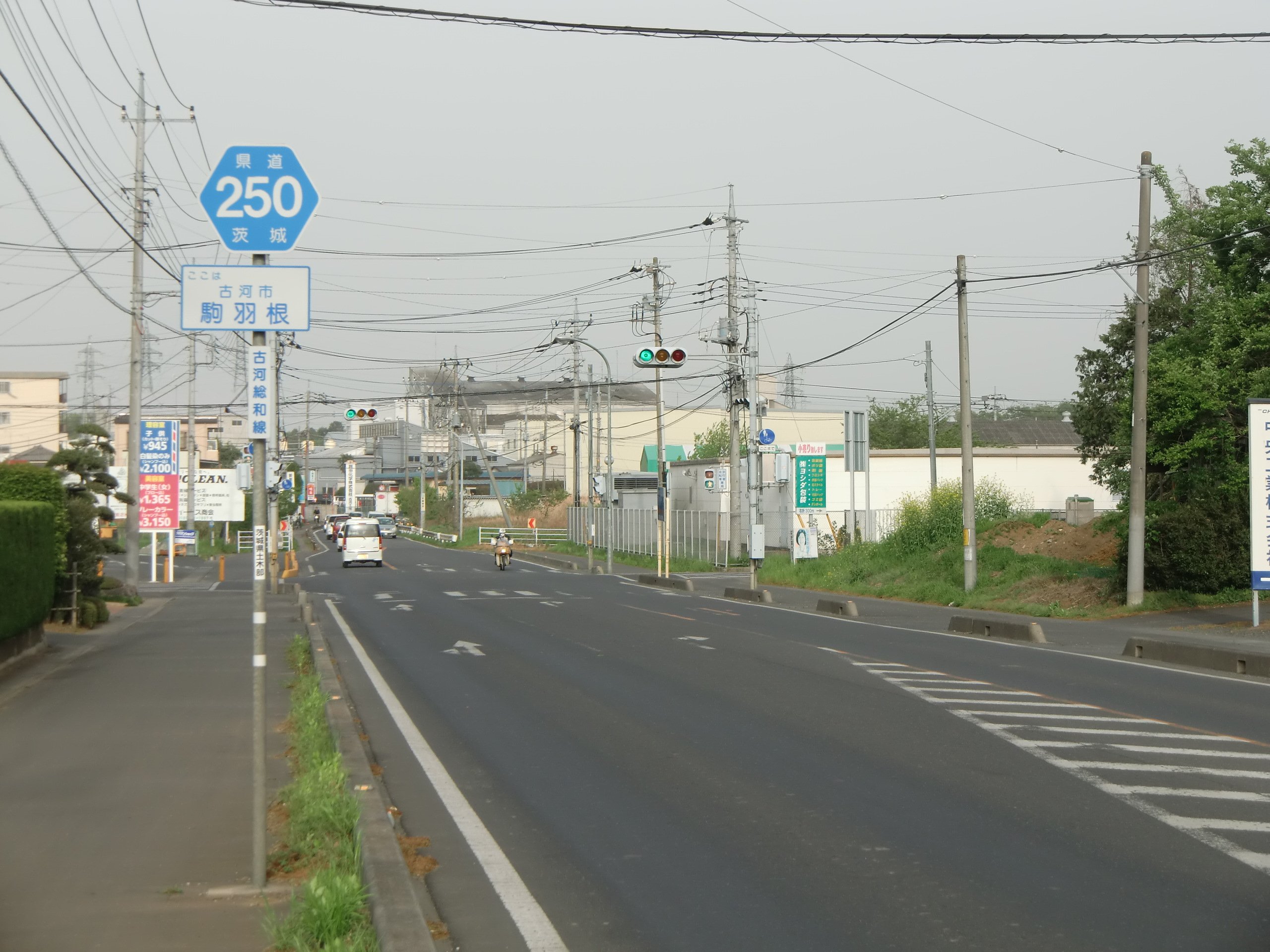 Ibaraki prefectural road 250(Koga-Sōwa line) in Komahane, Koga-city, Ibaraki-pref, Japan.